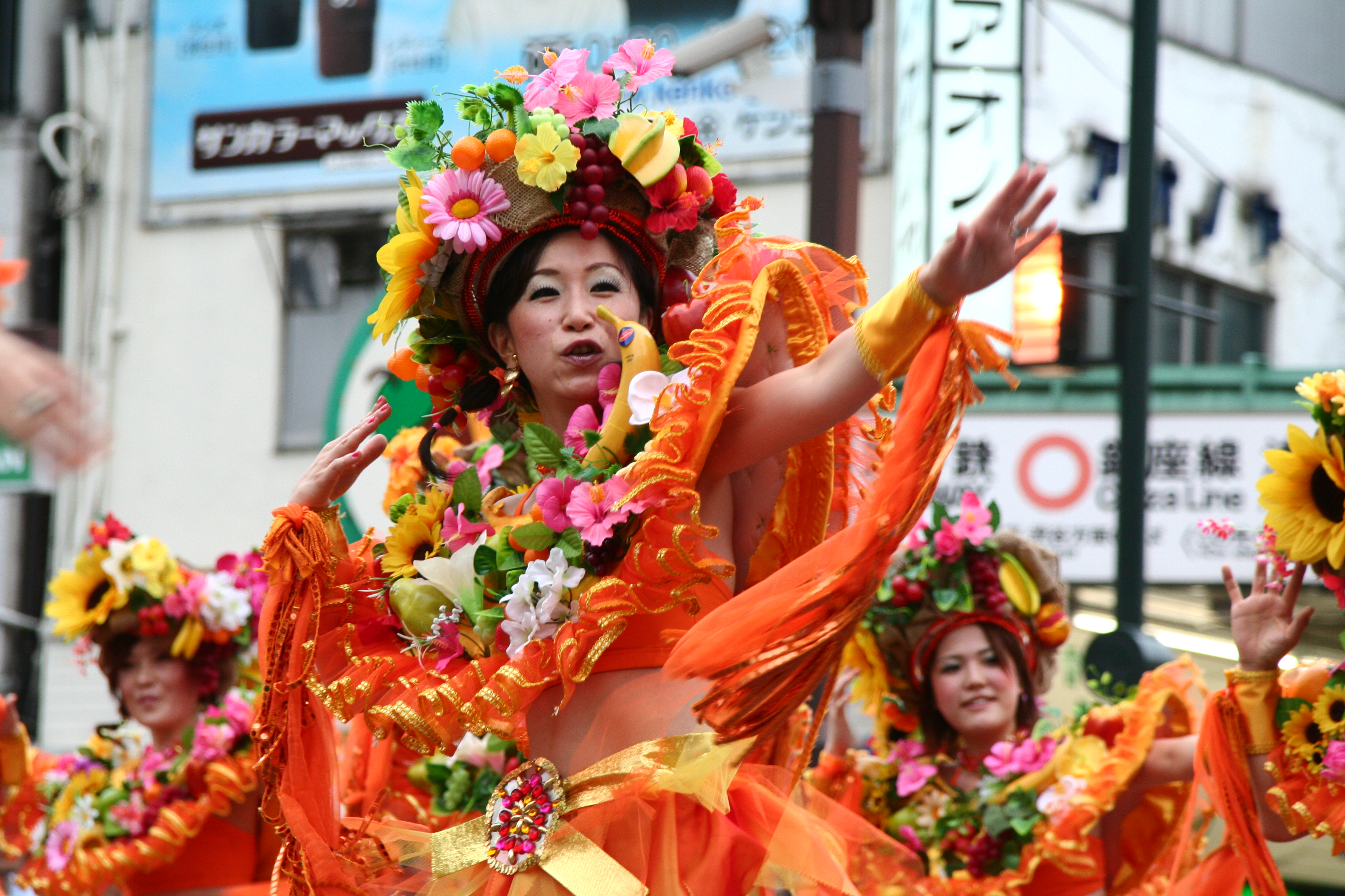 Asakusa Samba Carnival, annualy held in Asakusa, Tokyo, Japan.